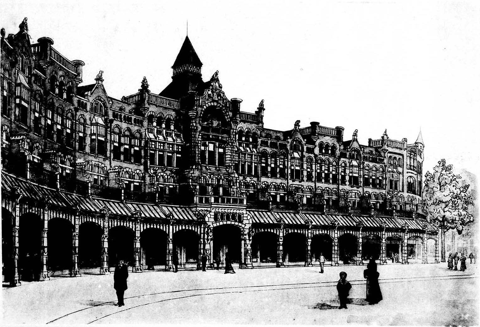 Shopping-arcade, Raadhuisstraat, Amsterdam.